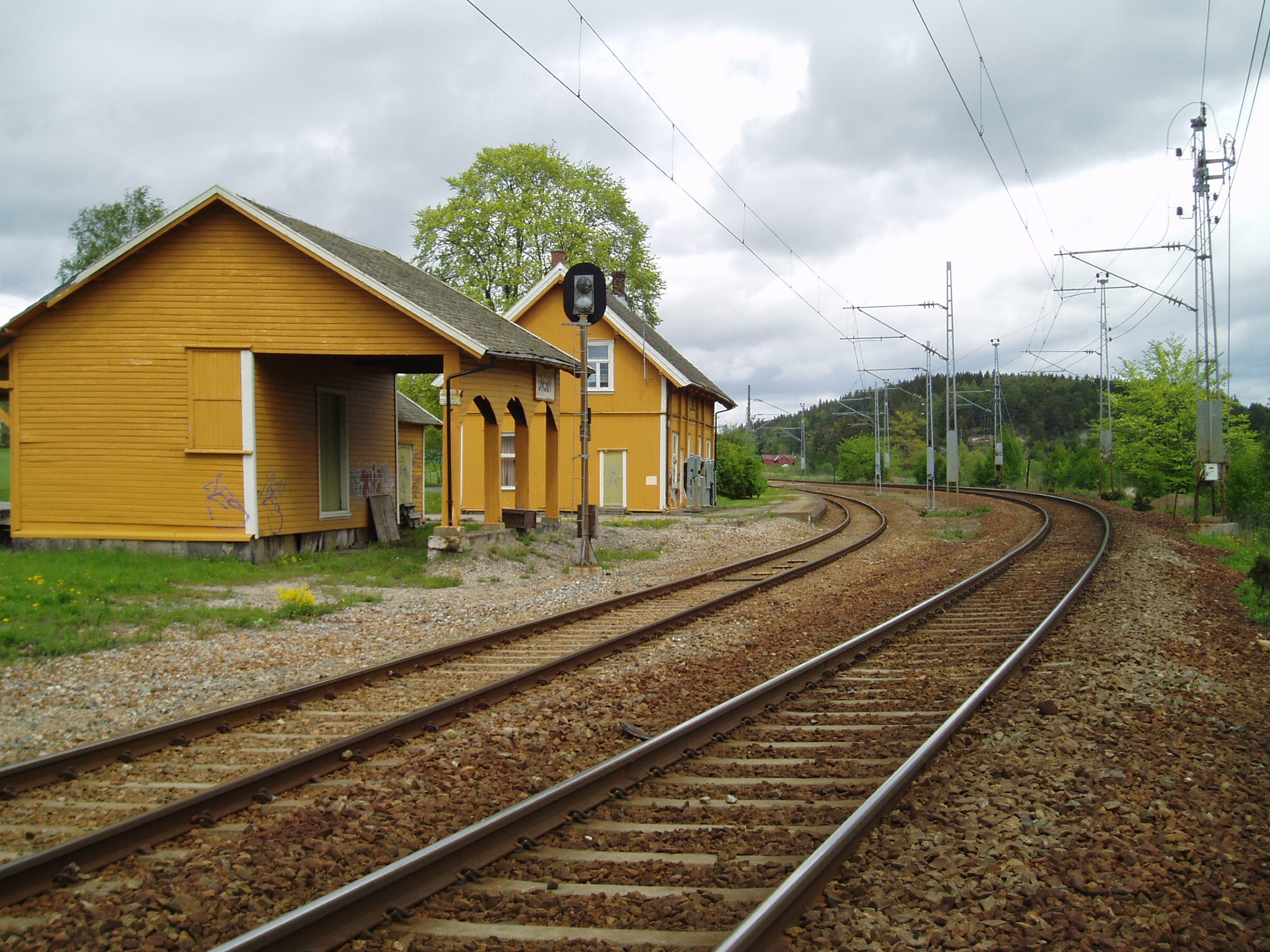 Train station in Onsøy, Norway. Photo by JohnM 13:54, 25 May 2006 (UTC).